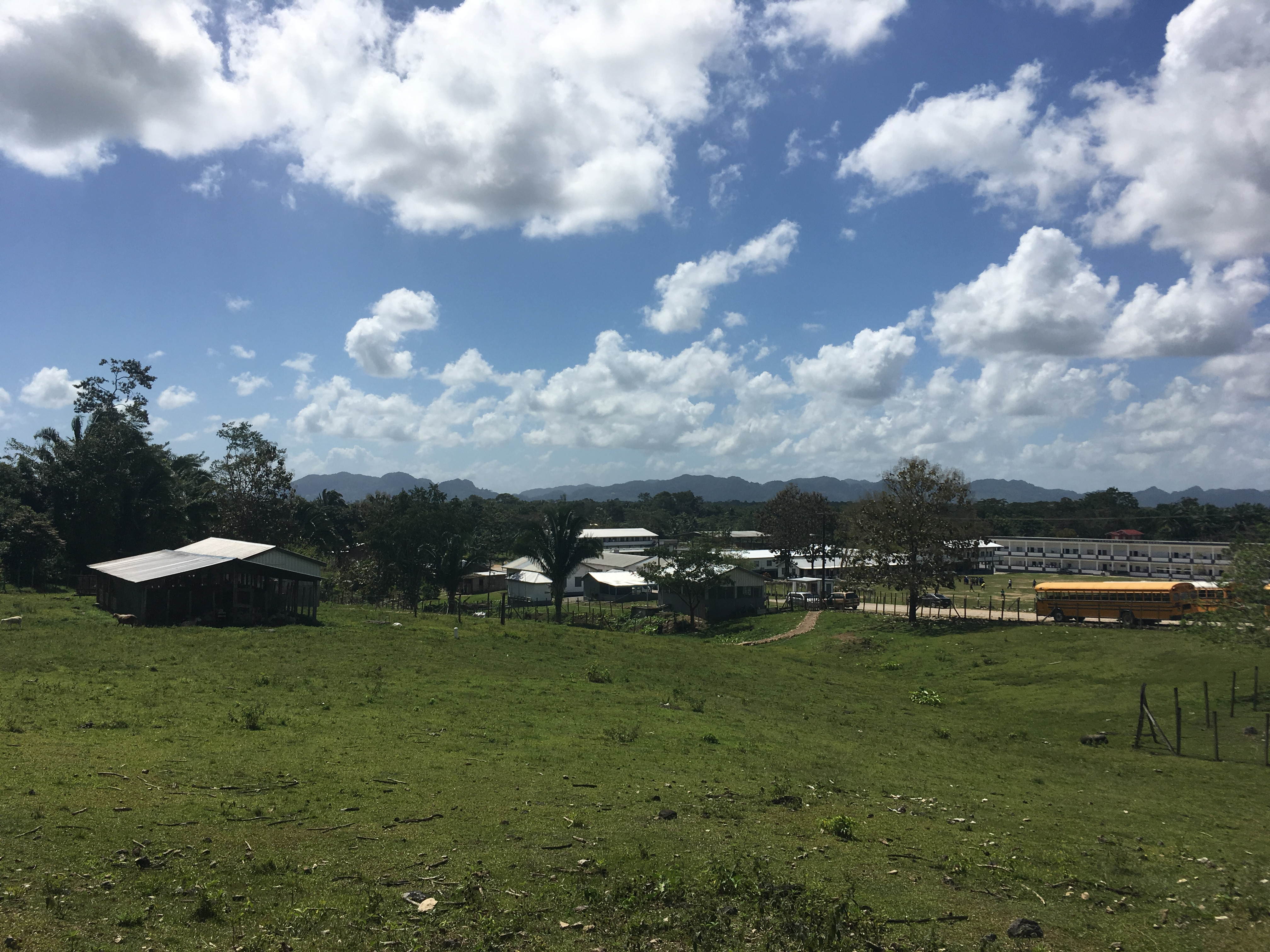 Julian Cho Technical High School in Toledo District, Belize